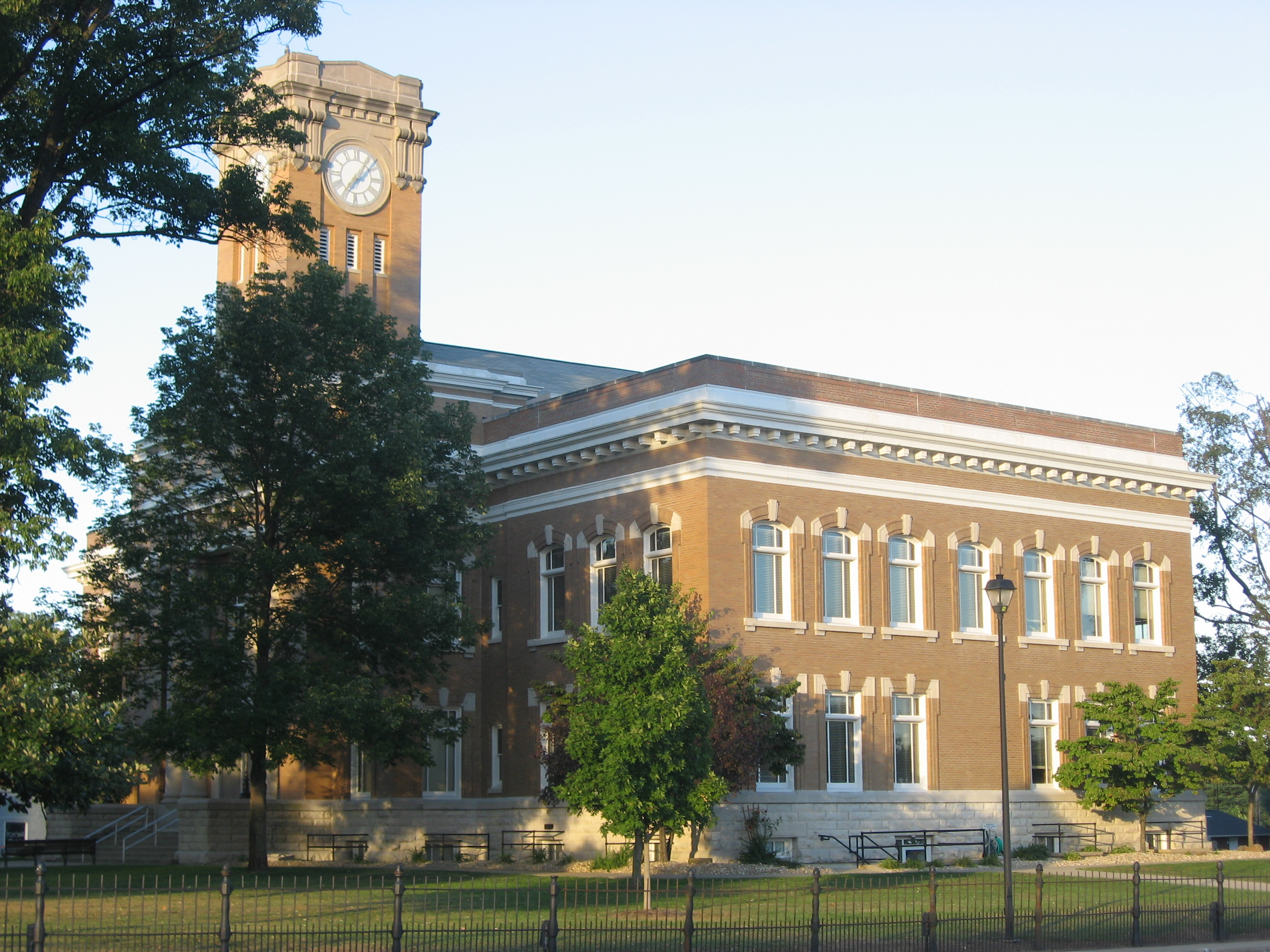 Southern side and front of the Jackson County Courthouse, located along S. Main Street (U.S. Route 50) in downtown Brownstown, Indiana, United States. Built in 1870, the courthouse is listed on the National Register of Historic Places.